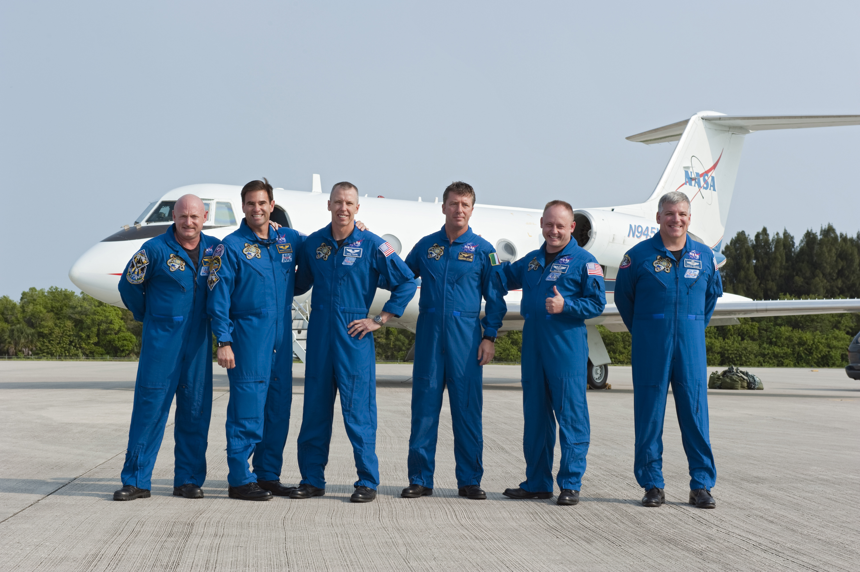 CAPE CANAVERAL, Fla. – The six STS-134 astronauts pause for a photo after arrival at NASA Kennedy Space Center's Shuttle Landing Facility in Florida, to begin final launch preparations for space shuttle Endeavour's mission to the International Space Station scheduled for Monday, May 16 at 8:56 a.m. From left are Commander Mark Kelly, Mission Specialists Greg Chamitoff, Andrew Feustel, European Space Agency astronaut Roberto Vittori,Michael Fincke and Pilot Greg H. Johnson. Endeavour and its crew will deliver the Express Logistics Carrier-3, Alpha Magnetic Spectrometer-2 (AMS), a high-pressure gas tank and additional spare parts for the Dextre robotic helper to the station. This will be the final spaceflight for Endeavour. For more information visit